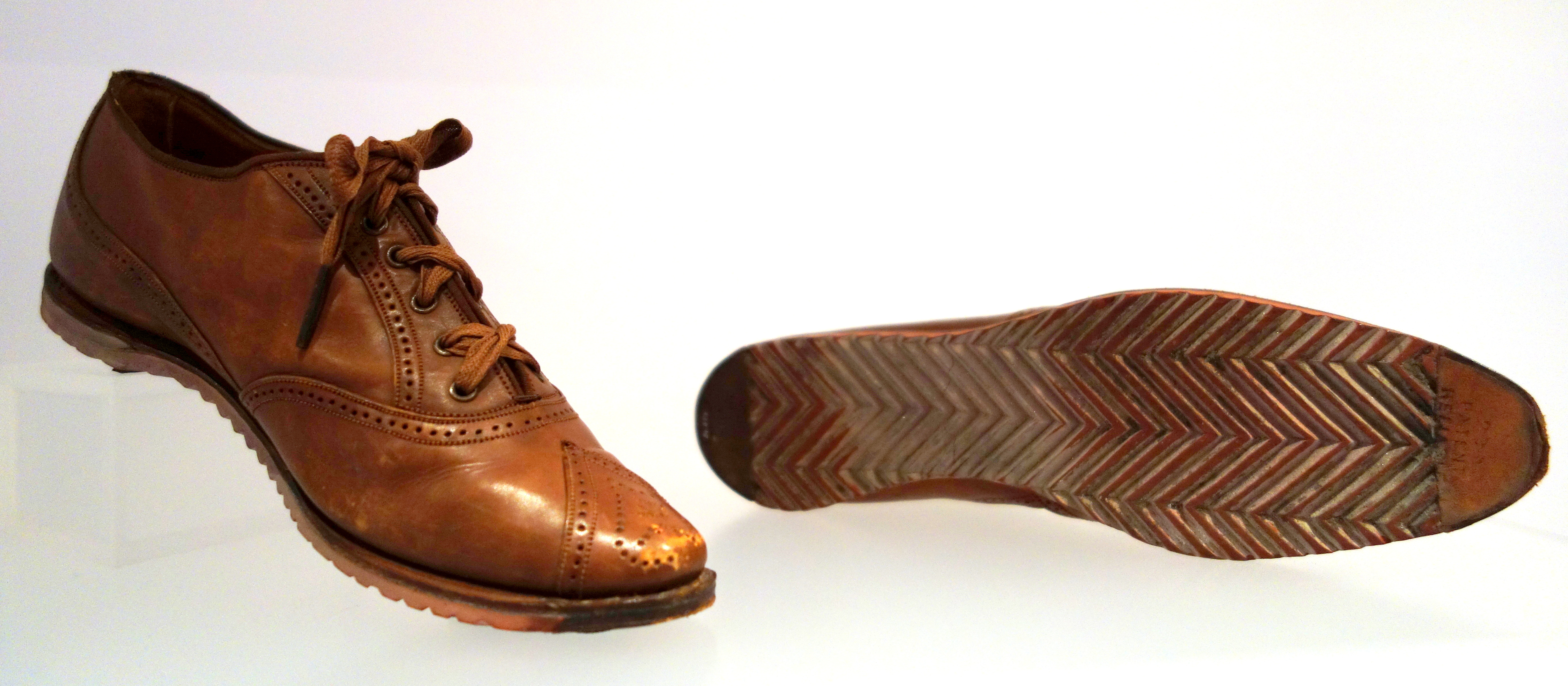 Exhibit in the Bata Shoe Museum, Toronto, Ontario, Canada. This item is old enough so that its design is in the public domain. The museum permitted photography without restriction.